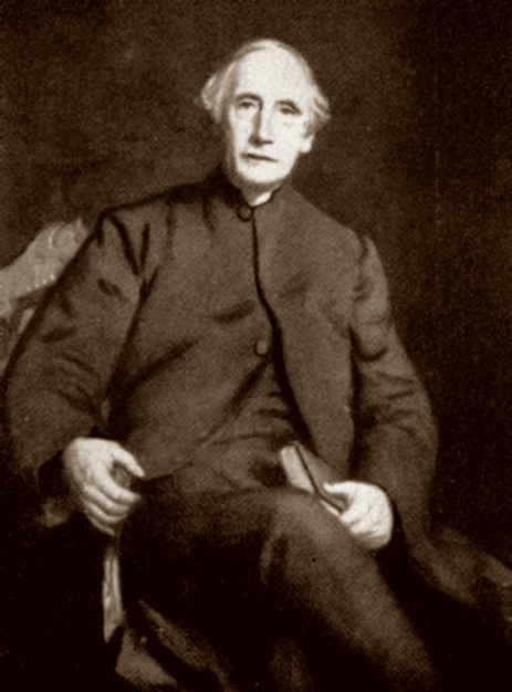 Richard Randall, Dean of Chichester